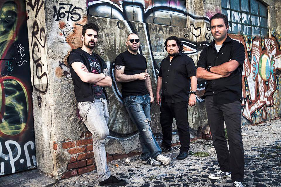 Scar For Life promoshot in Lisbon